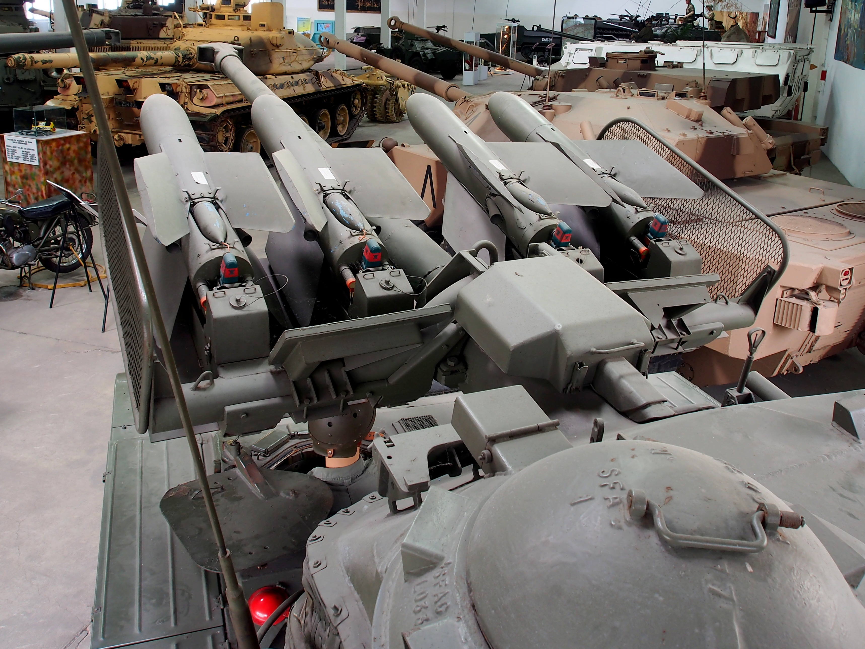 Photographed in the Musée des Blindés, France.